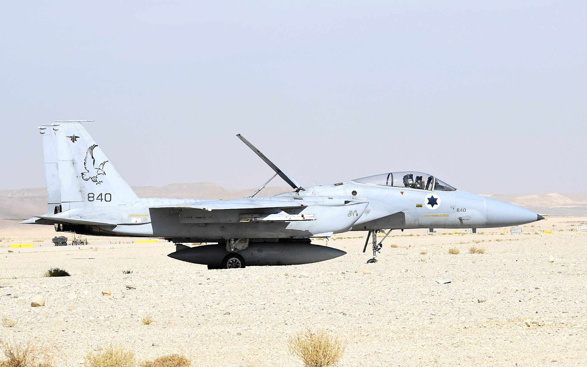 U.S. Embassy Deputy Chief of Mission Leslie Tsou visited U.S. Air Force personnel and F-16 jet fighters from the 510th Fighter Squadron, Aviano Air Base, Italy, who took part in exercise Blue Flag 2017 at Uvda Air Base in southern Israel November 14, 2017. U.S. Air Force participation in the exercise supports our nation's commitment to Israel's defense and supports Israel's qualitative military edge. The U.S. and Israel's continuing contributions to develop and improve air readiness are significant in maintaining security and building a strong partnership. Blue Flag